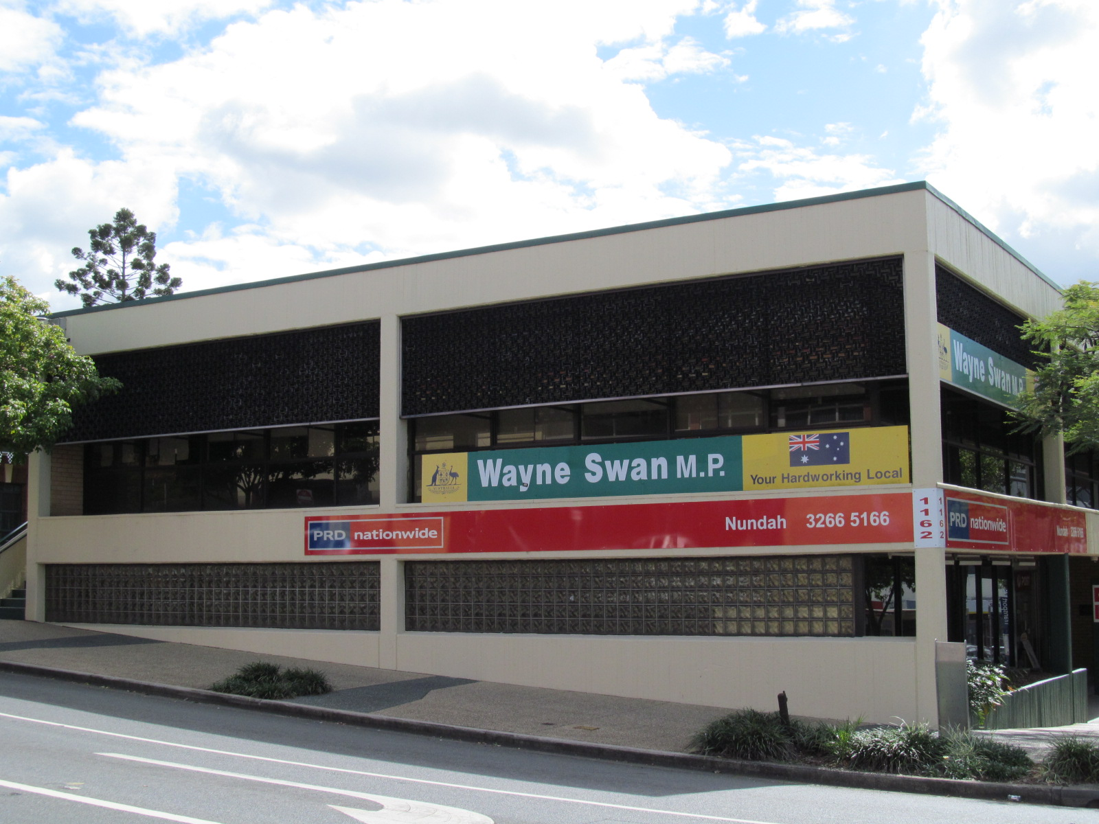 Former Treasurer Wayne Swan's office in Sandgate Road, Nundah, Queensland.